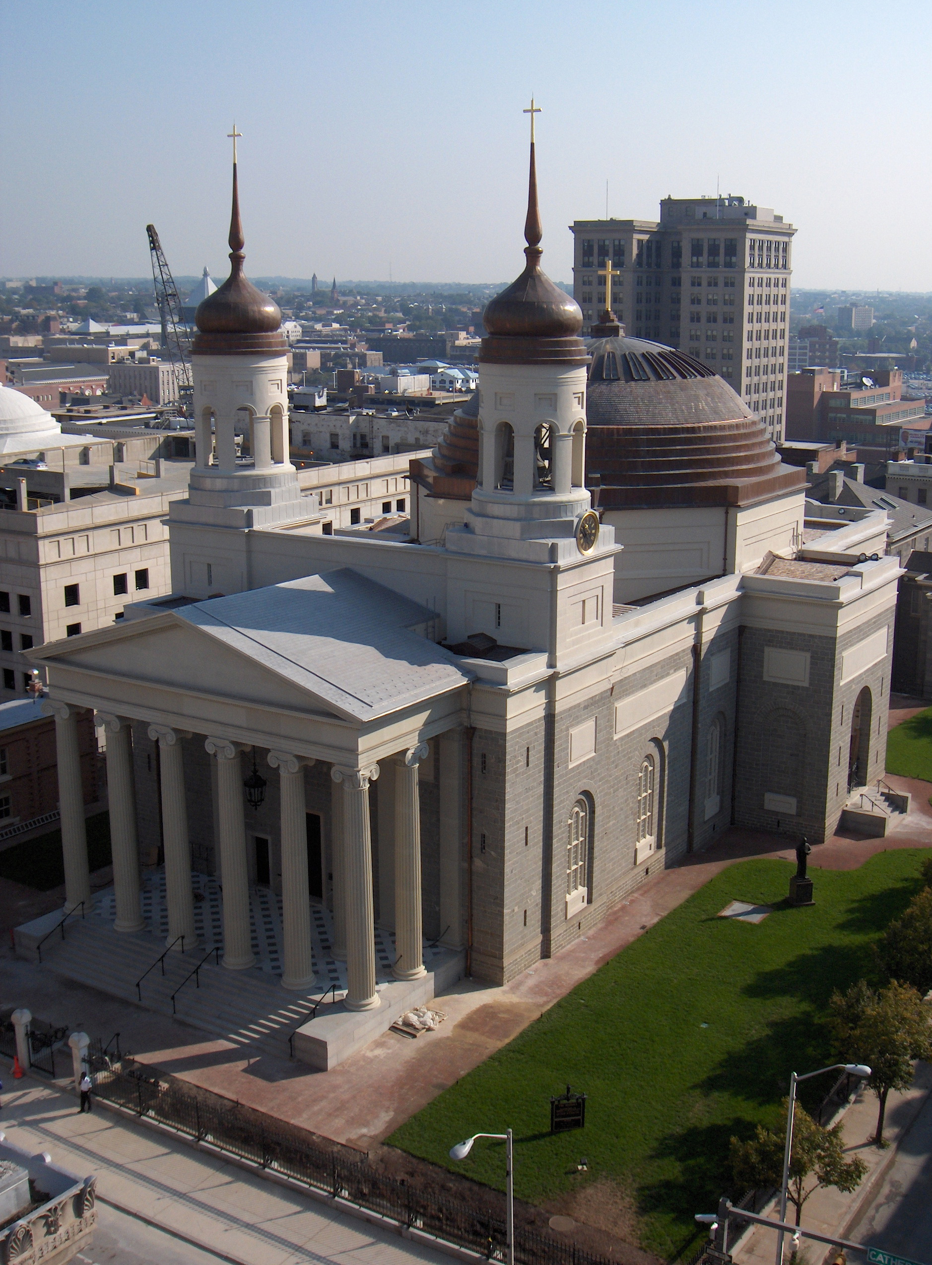 The Basilica of the National Shrine of the Assumption of the Blessed Virgin Mary, in Baltimore, Maryland. Photo taken by Deadwildcat in October 2006.